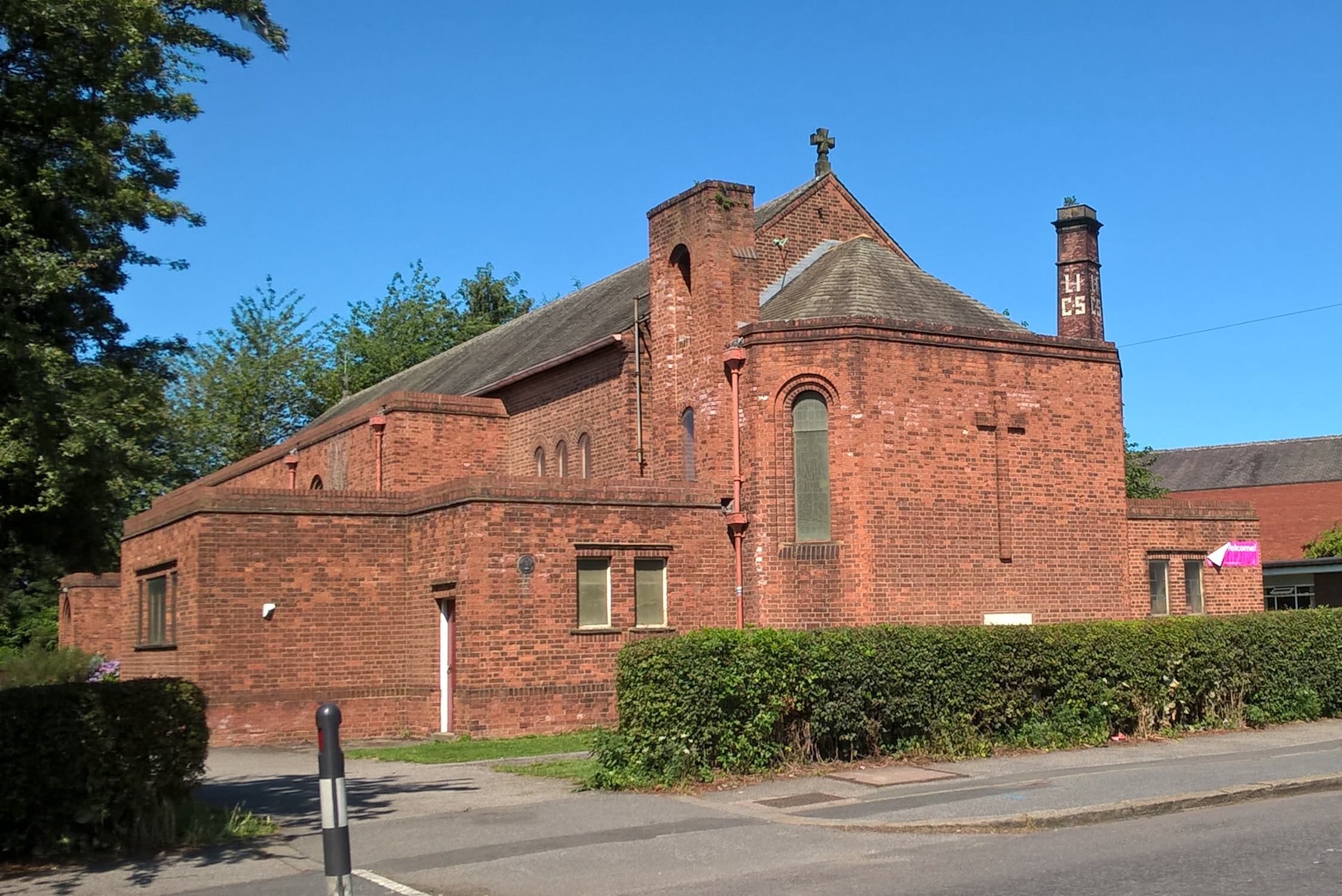 St Phillip's Church, 86 Osmondthorpe Lane, Leeds LS9 9EF. Church of England. Consecrated 1933